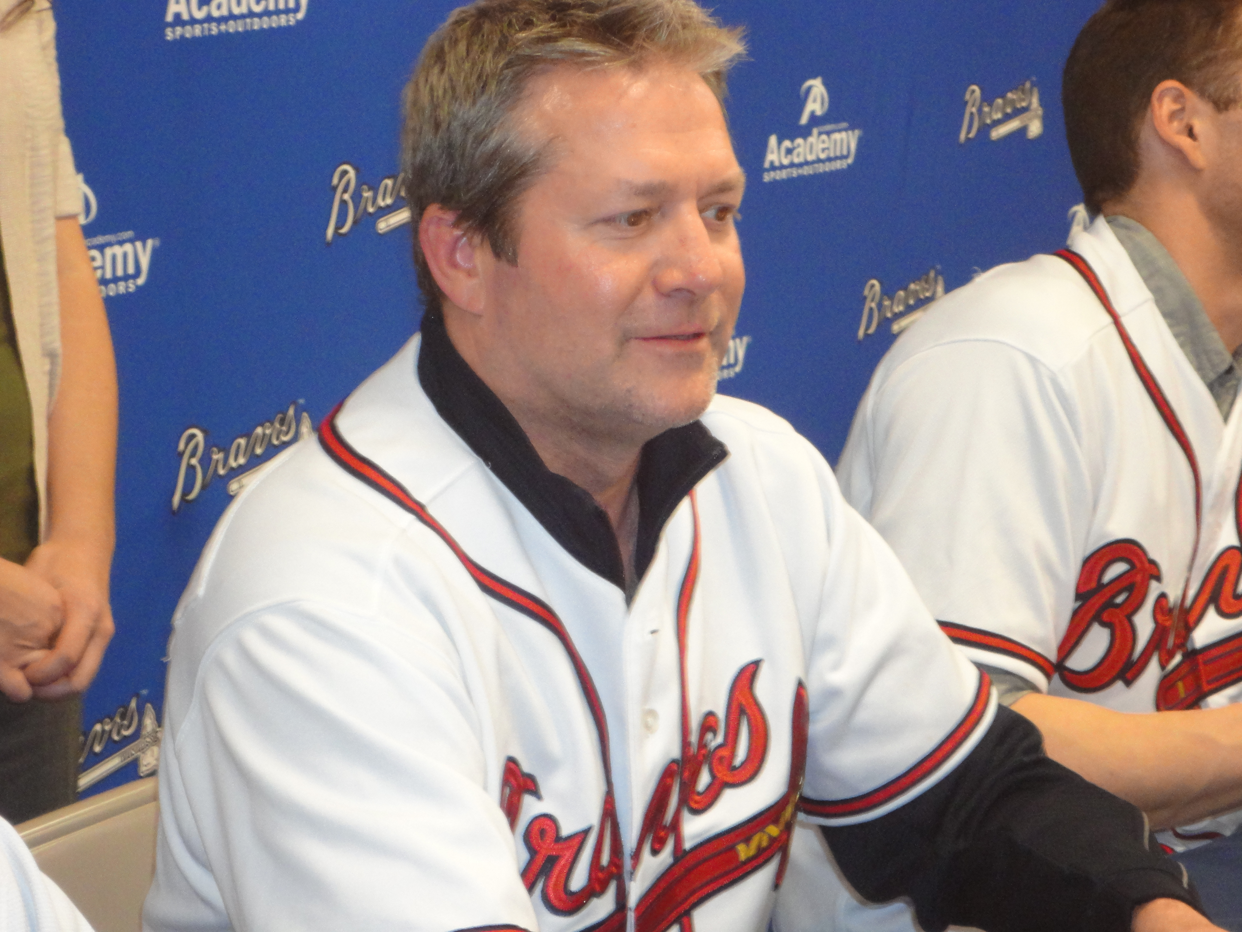 Braves pitching coach Roger McDowell at a 2012 Atlanta Braves Country Caravan autograph signing.